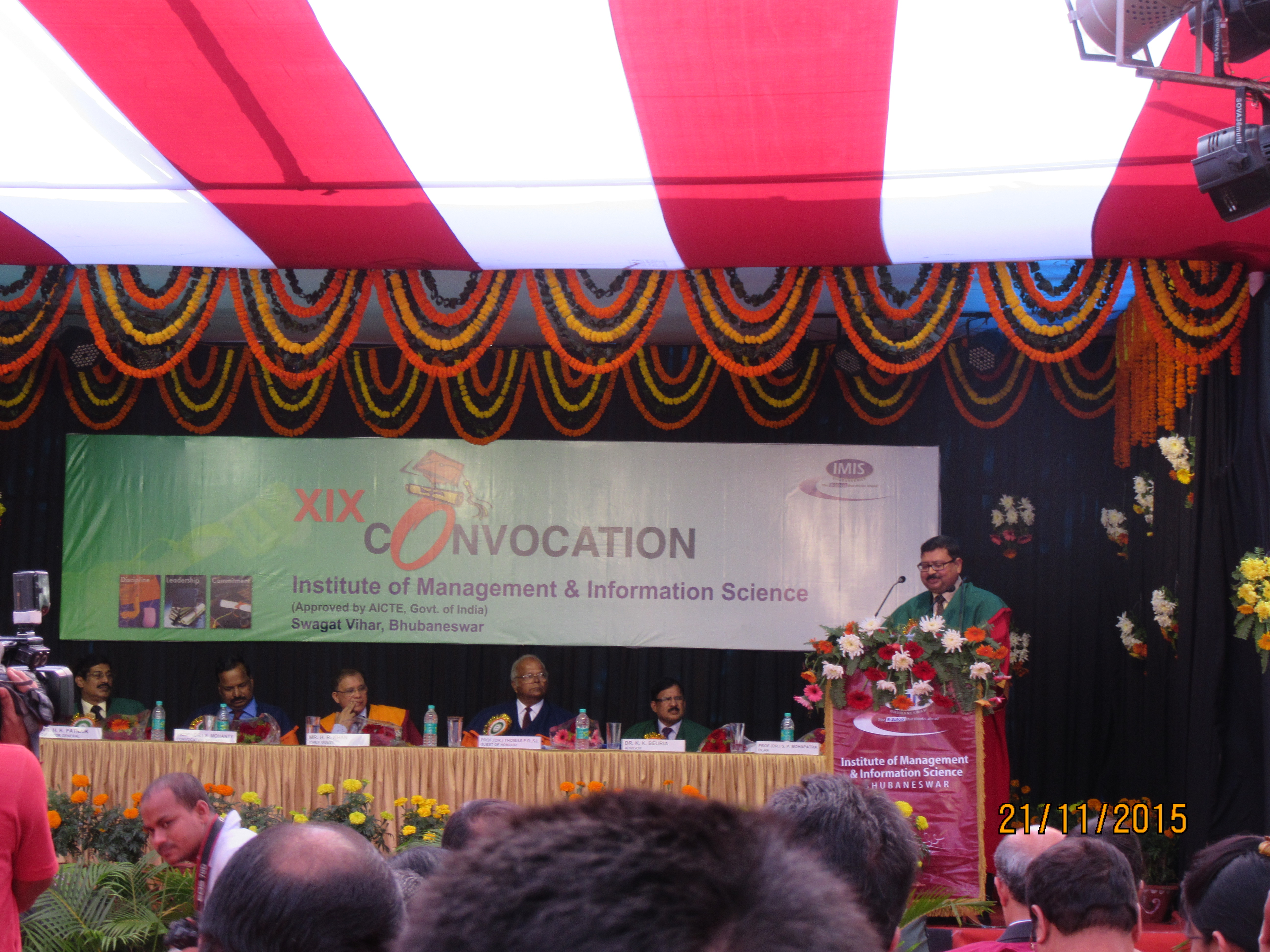 convoday2015